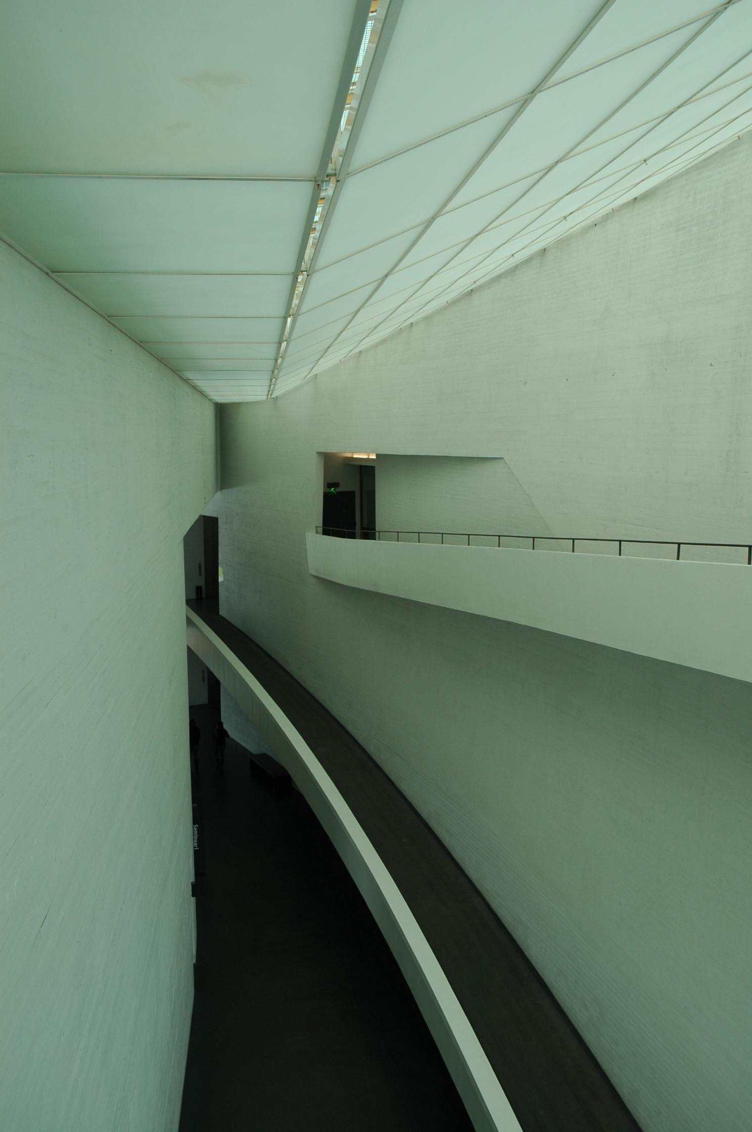 entrace hall of the museum Kiasma in Helsinki